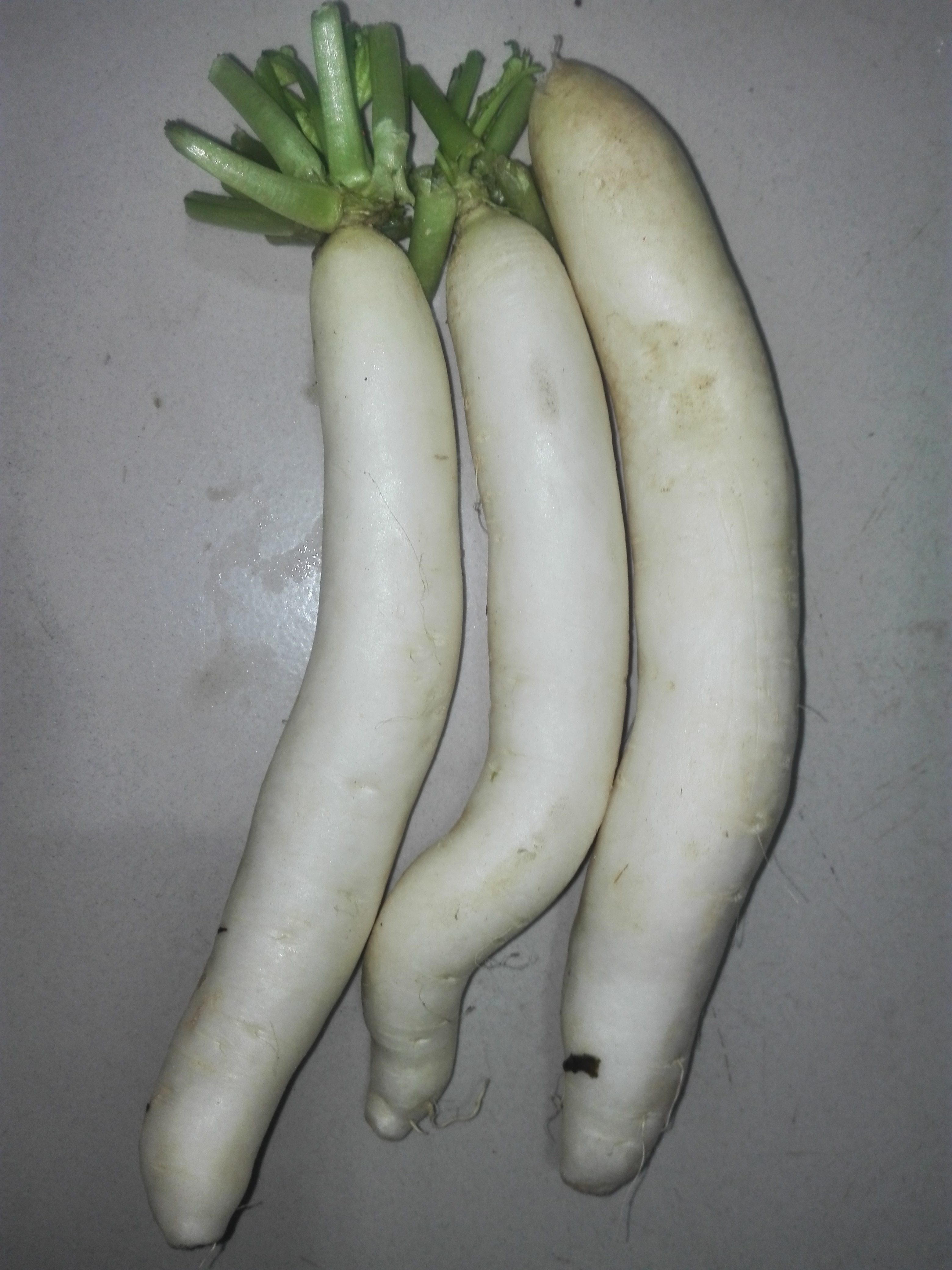 Radishes